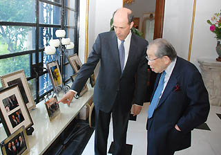 John Roos, Ambassador to Japan, showed some photos to Shigeaki Hinohara, Chairman of the St. Luke's International Medical Center, at the Ambassador's Residence in Tokyo on May 15, 2013.